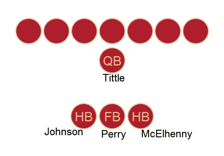 A diagram of the San Francisco 49ers' "Million Dollar Backfield" of Y.A. Tittle, John Henry Johnson, Joe Perry, and Hugh McElhenny lined up in the typical T formation